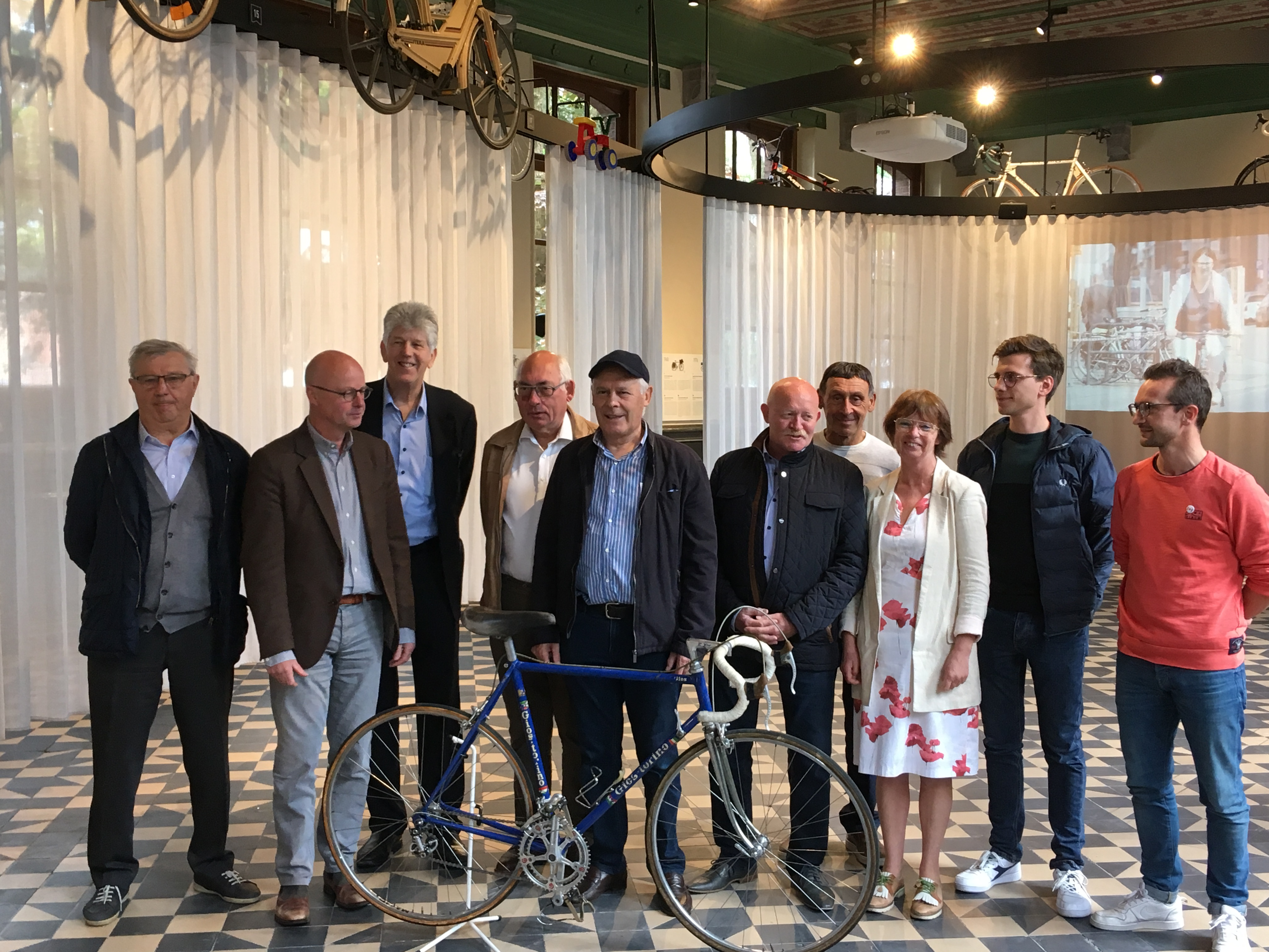 Johan De Muynck poses with his bike of Gios Torino from 1975. The racing bike was bought in 2019 by the association 'Vrienden van KOERS' (Friends of KOERS) from a collectionor. The 'Vrienden van KOERS' donates the bike to KOERS. Museum of Cycle Racing in Roeselare, Belgium.